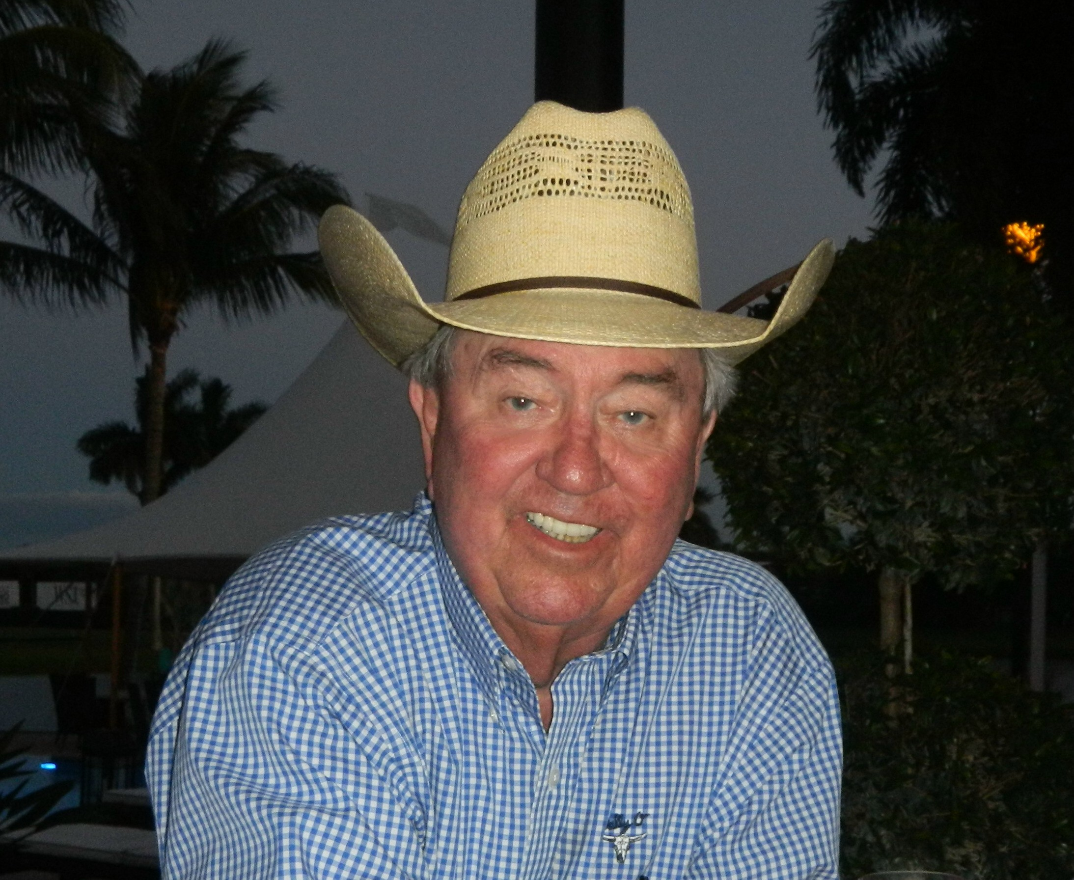 American polo player (retired), previously rated at 10 goals, and member of the Polo Hall of Fame.